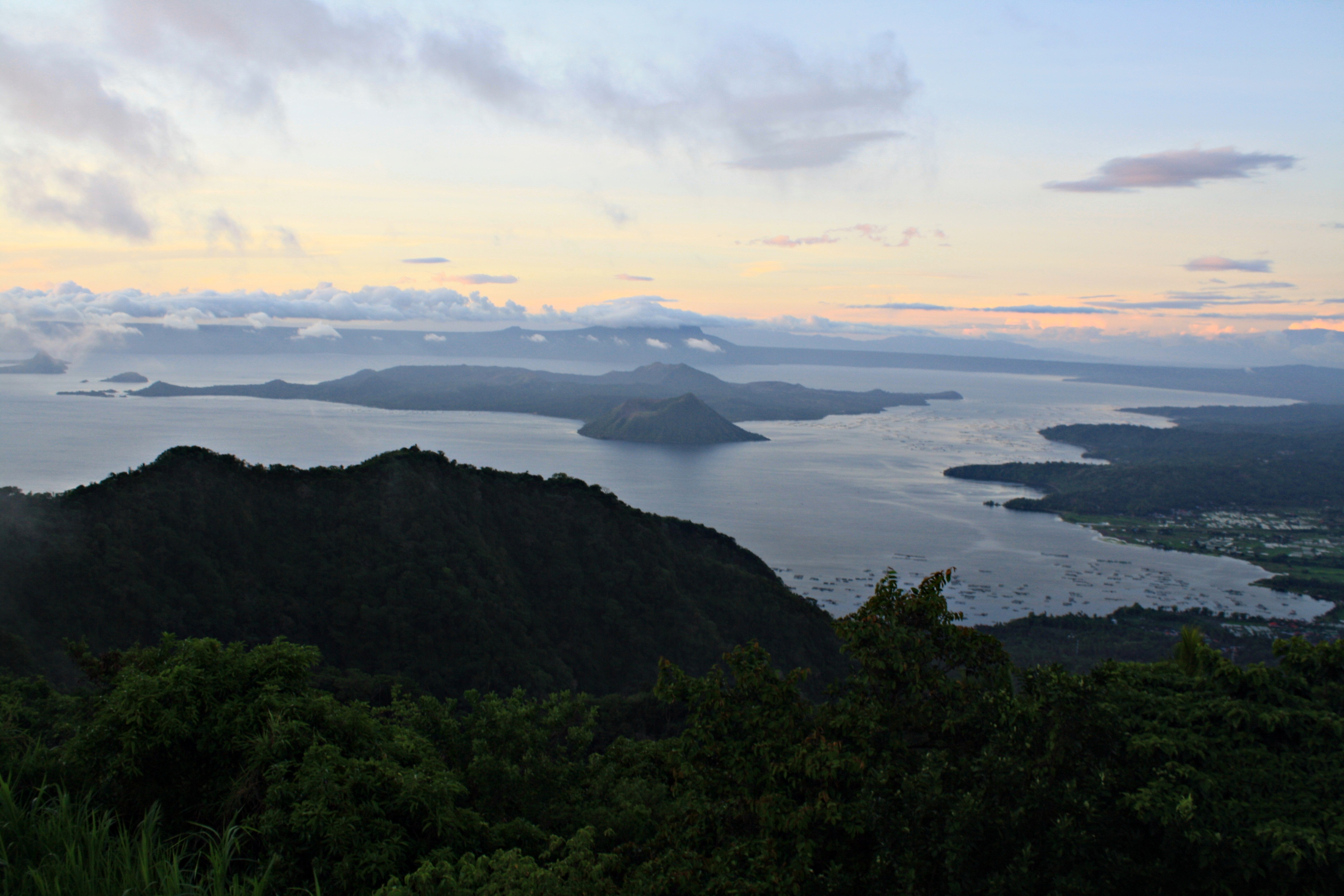 View of Mt. Taal and Mt. Tabaro in the Philippines, June 2012